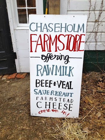 The Chaseholm Creamery Farm Store is now open on-site